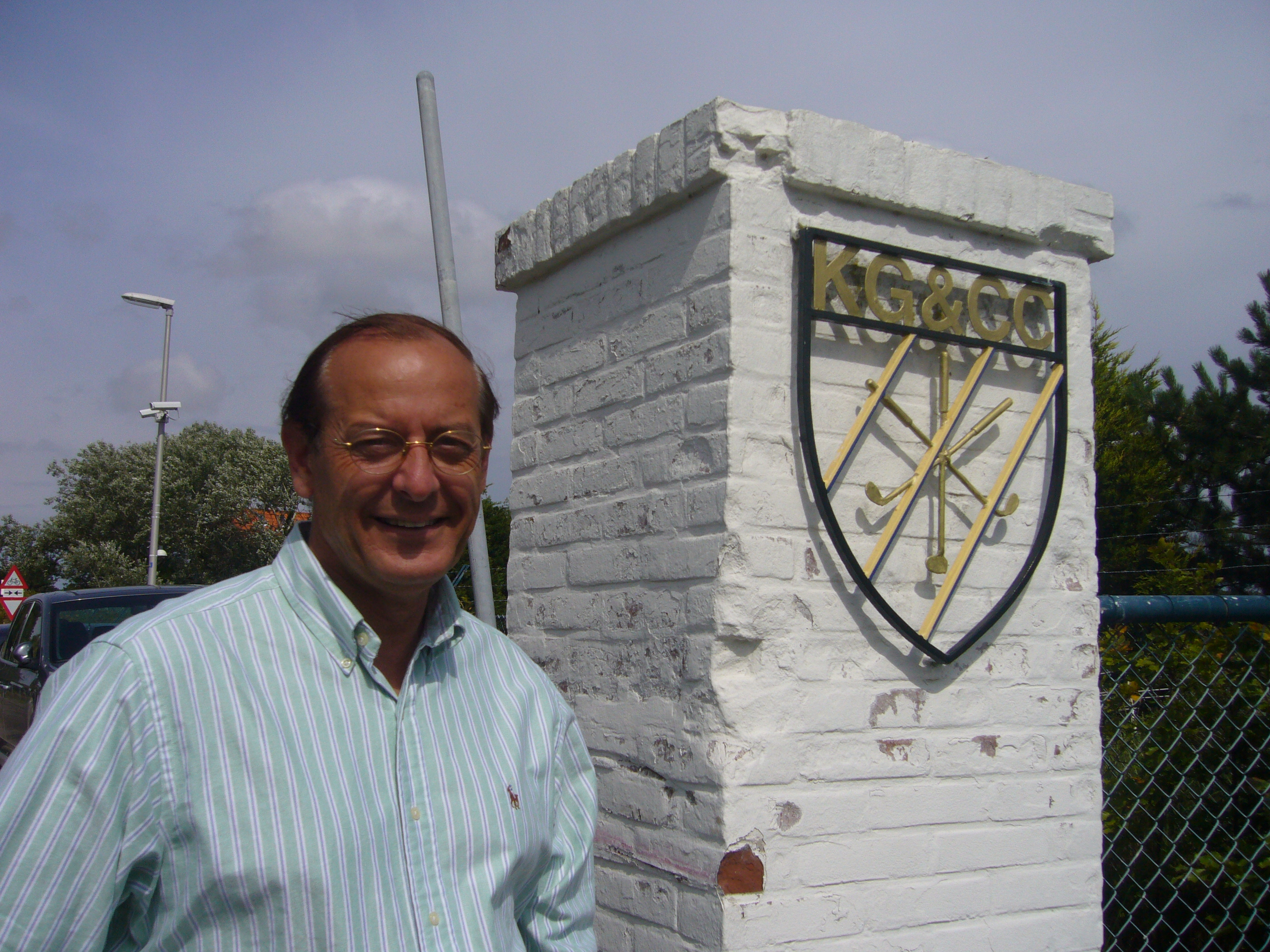 Piet Hein Streutgers, Dutch golfer